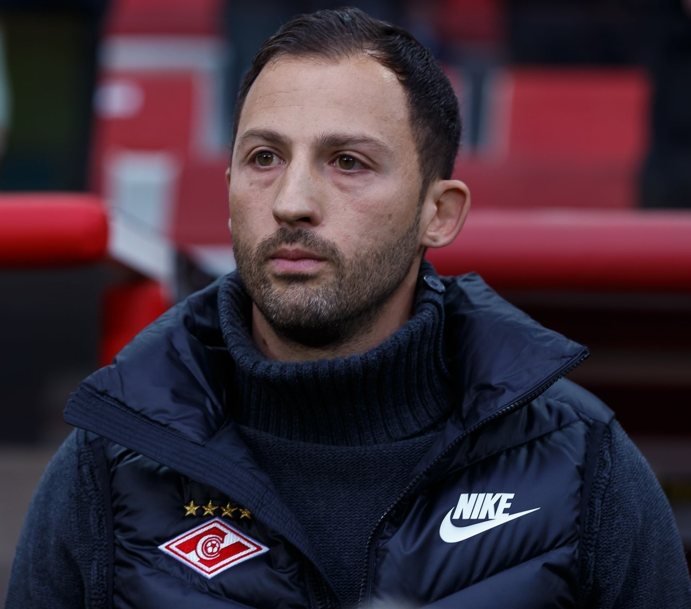 Domenico Tedesco coaching FC Spartak Moscow in a game against FC Krasnodar